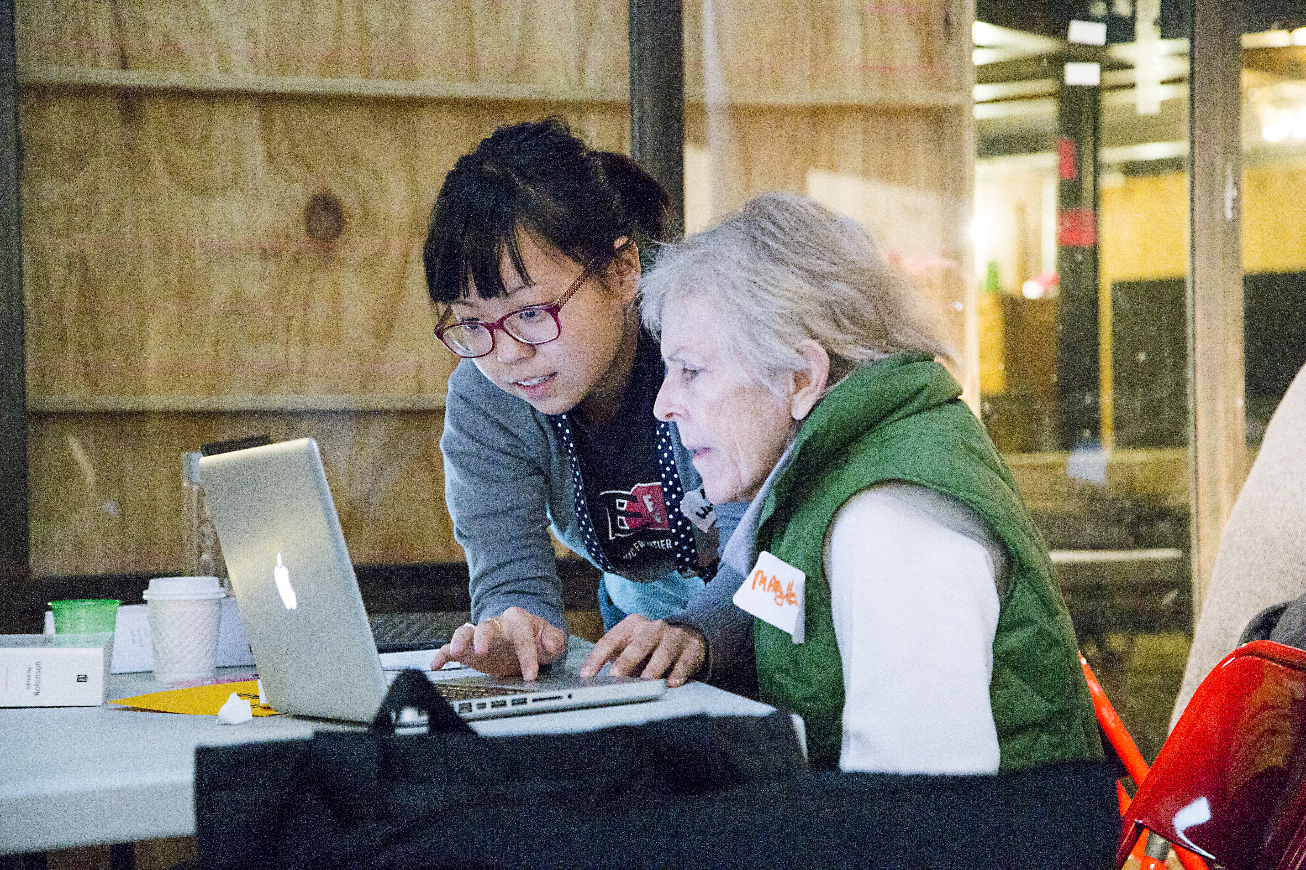 Intergenerational support at Wikipedia Art+Feminism Edit-a-thon, at Eyebeam in New York City.